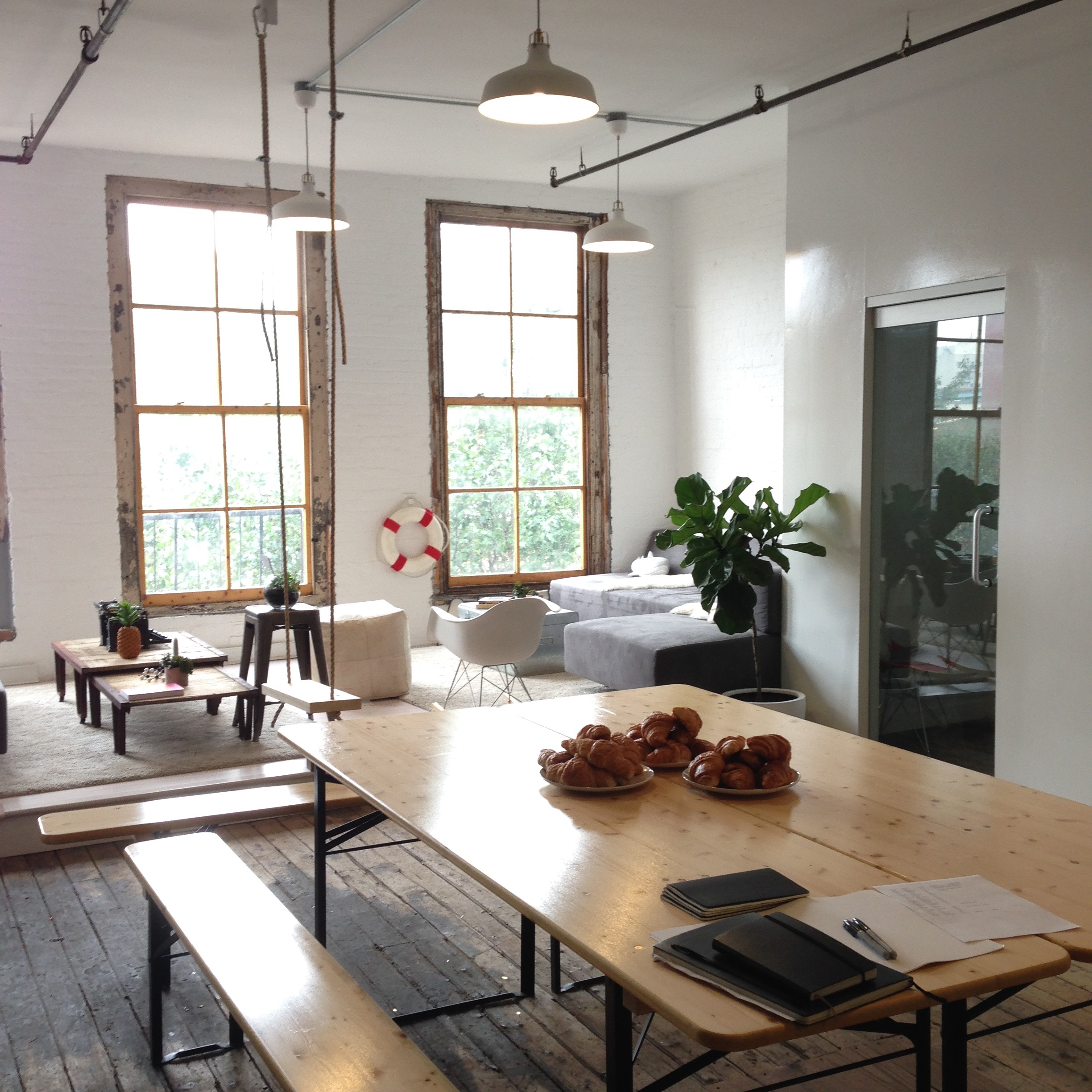 Photo of the common area at Friends Work Here, a coworking space for creatives in Brooklyn NY